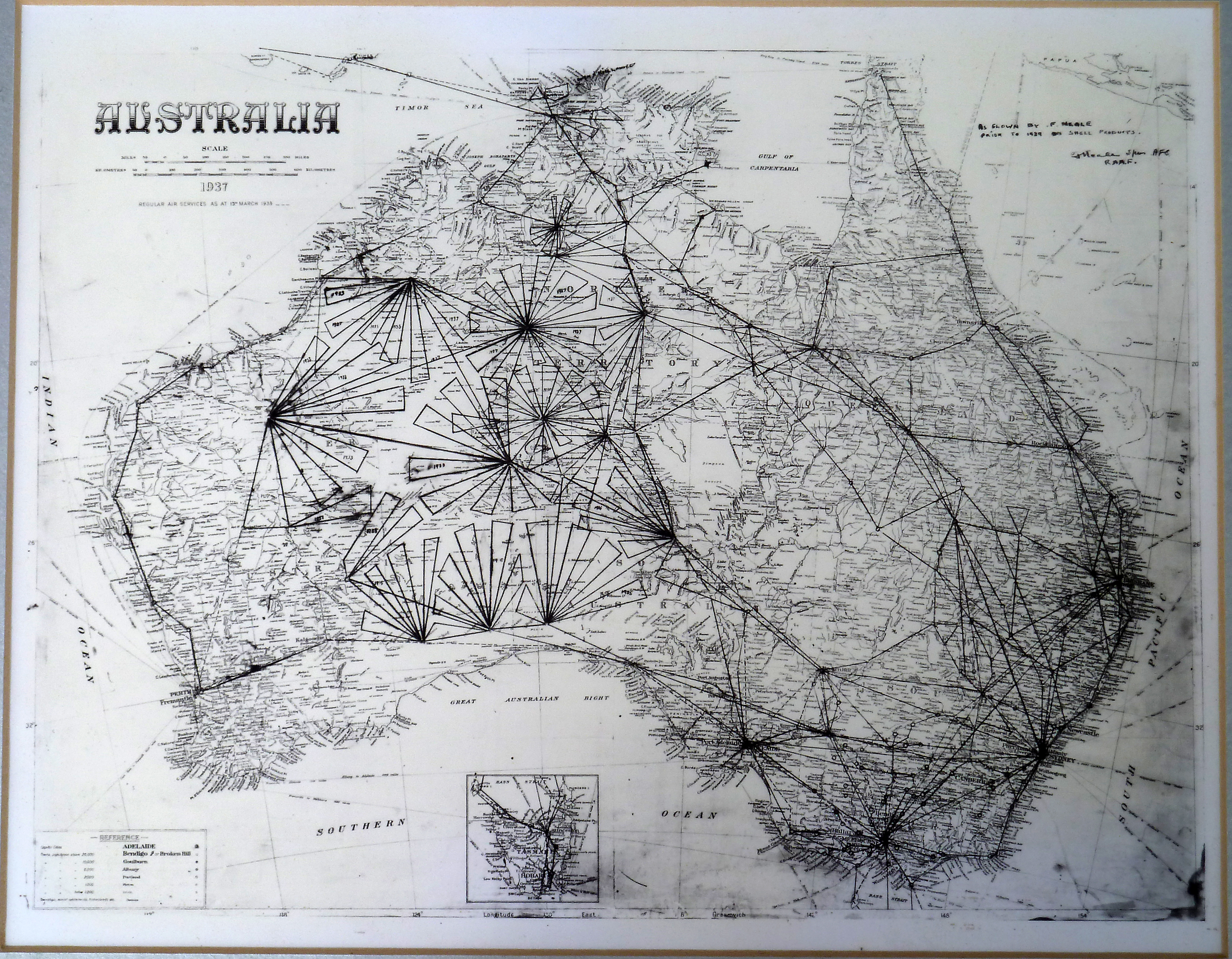 Photograph of a framed map of flights by Frank Neale. The handwritten inscription at the top right reads "As flown by F. Neale prior to 1939 on Shell products". It is signed "F. Neale S/ldr AFC, RAAF"